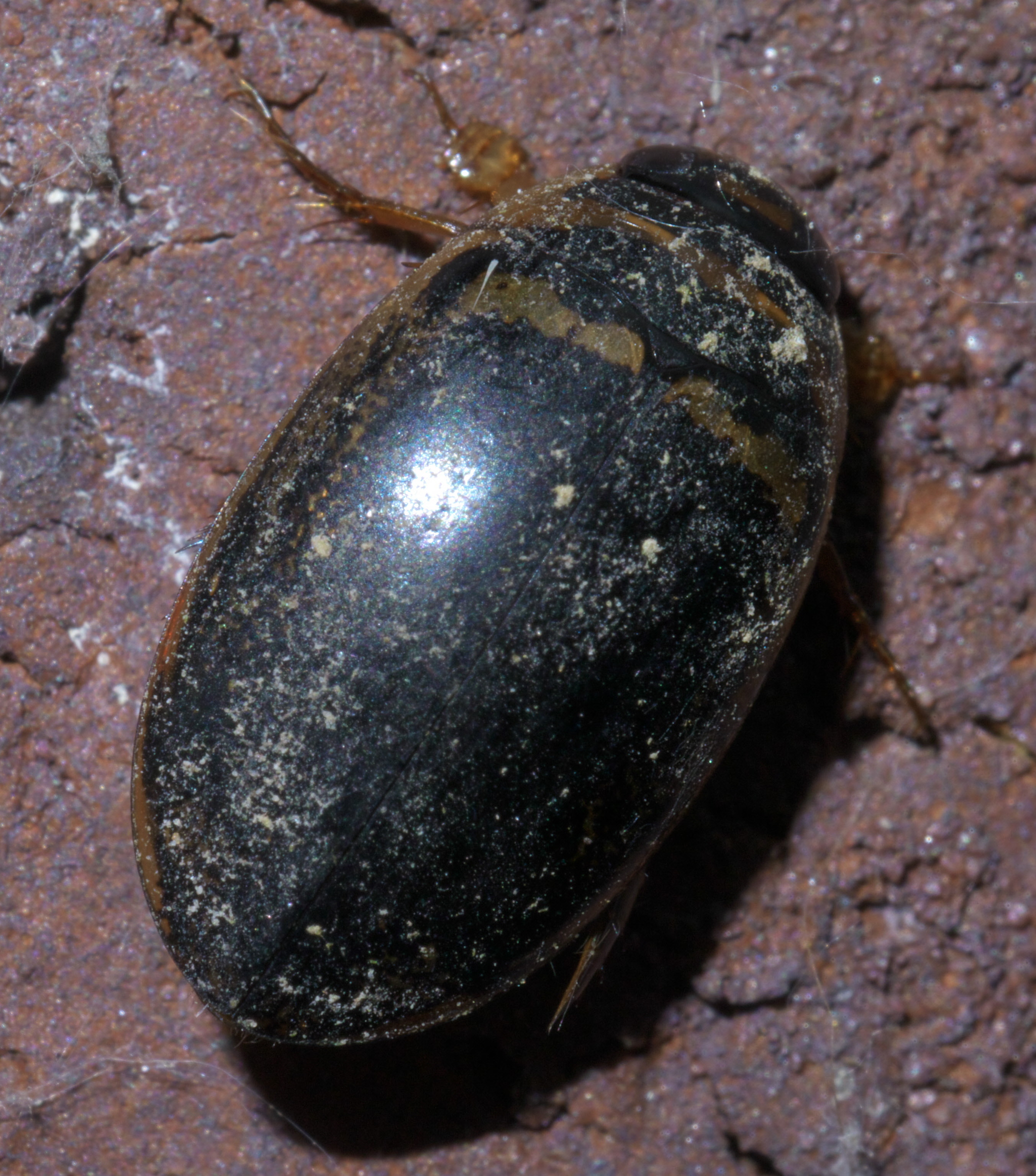 Thermonectus basillaris, Family: Predaceous Diving Beetles, ID Confidence: 87